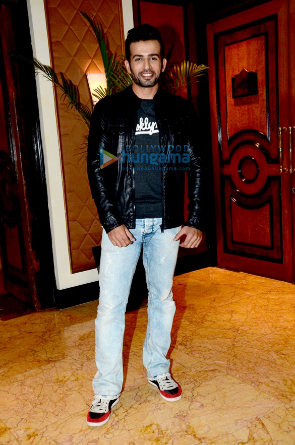 Bhanushali at the launch of 'The Voice India Kids' reality show